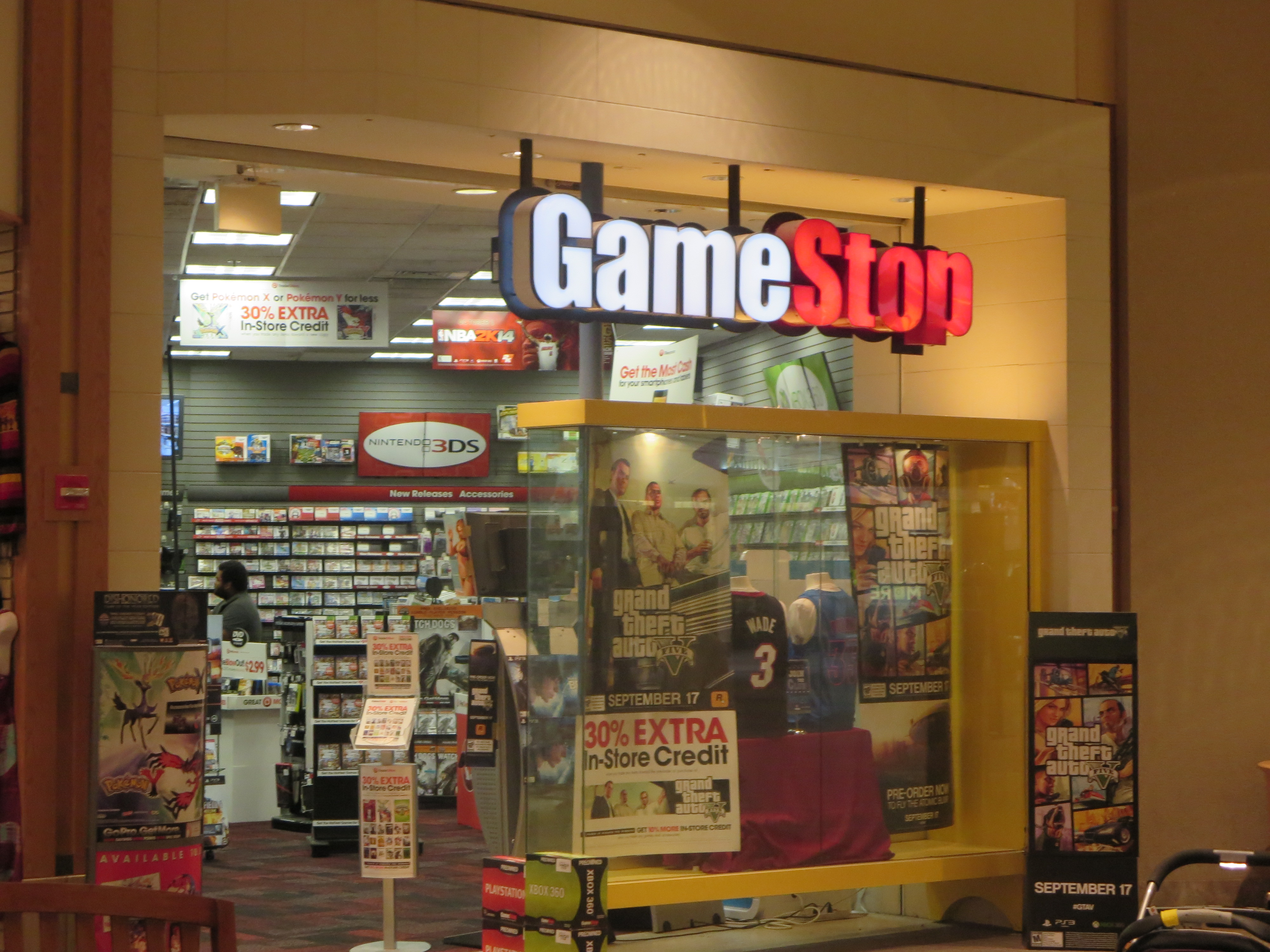 GameStop